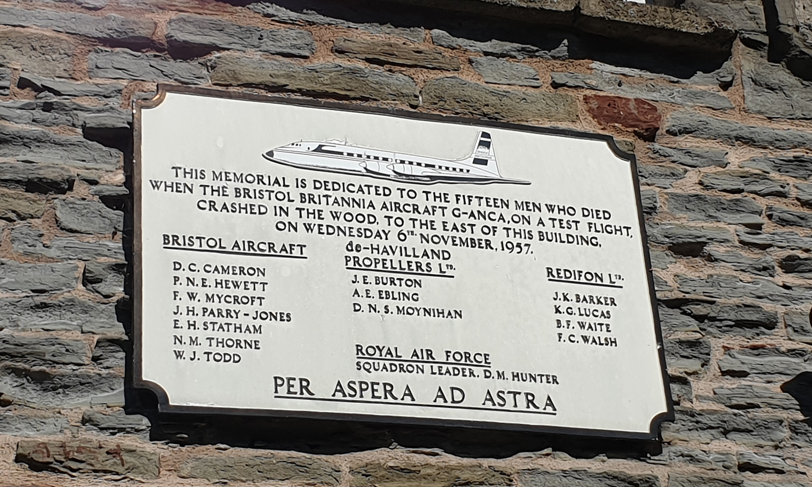 Memorial plaque listing names of all those who perished in Downend air crash on 6 November 1957. It's located on the front wall of Downend Folk House in Bristol, England.